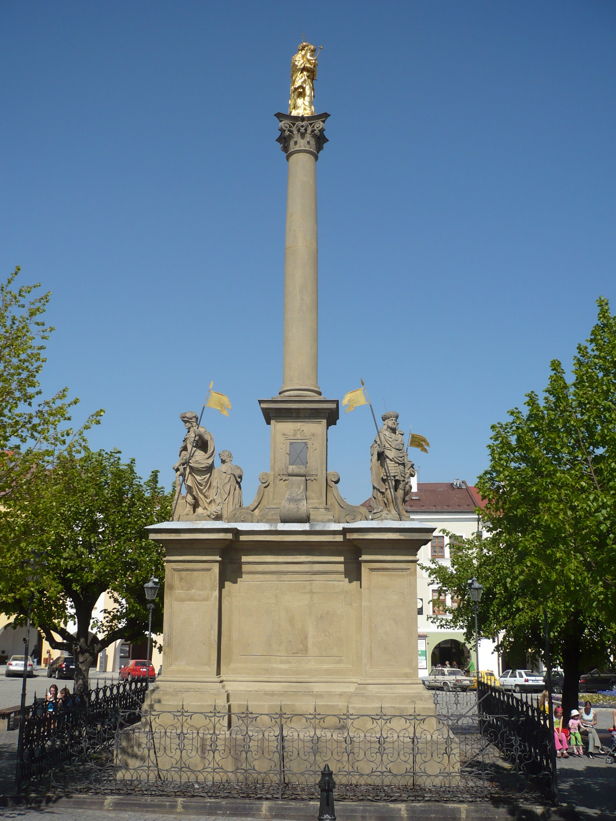 Kromeriz - Plague pillar on Big square